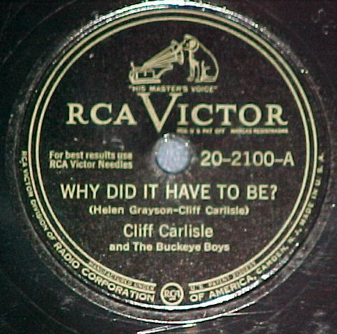 Why Did It Have to Be? by Cliff Carlisle and the Buckeye Boys, RCA Victor 1947.